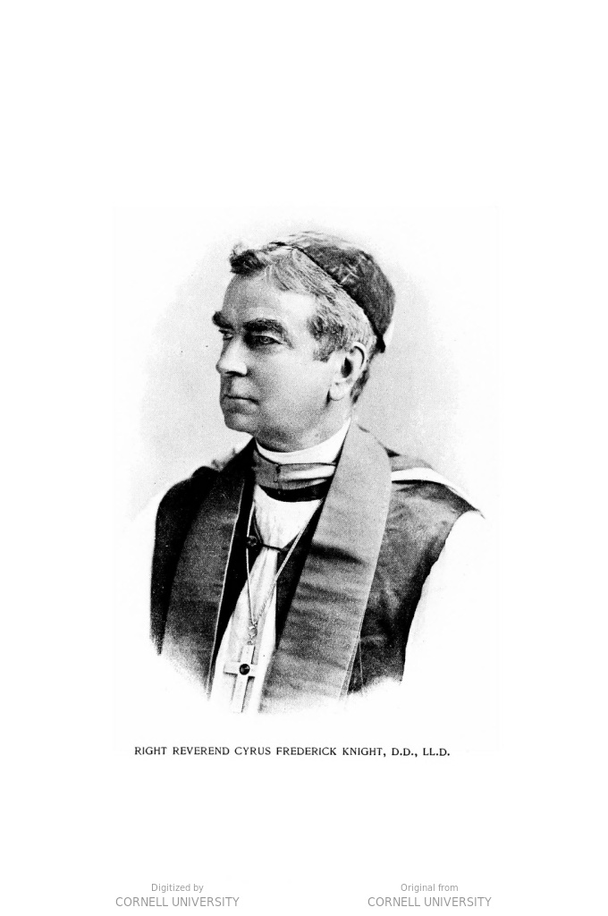 The Rt. Rev. Cyrus Frederick Knight